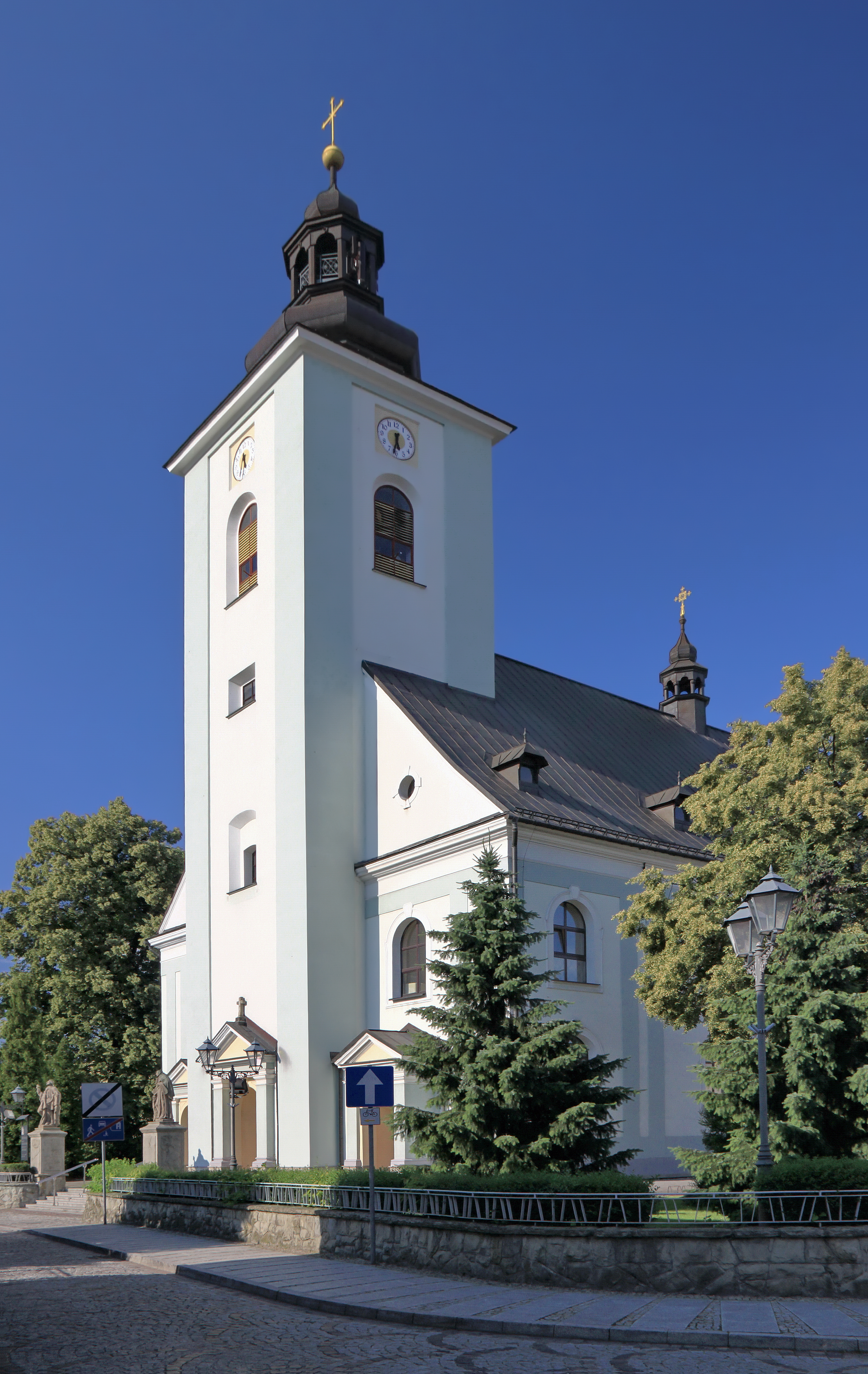 Skoczów, parish church of Saints Apostles Peter and Paul, build in 1762, 1862, 1901